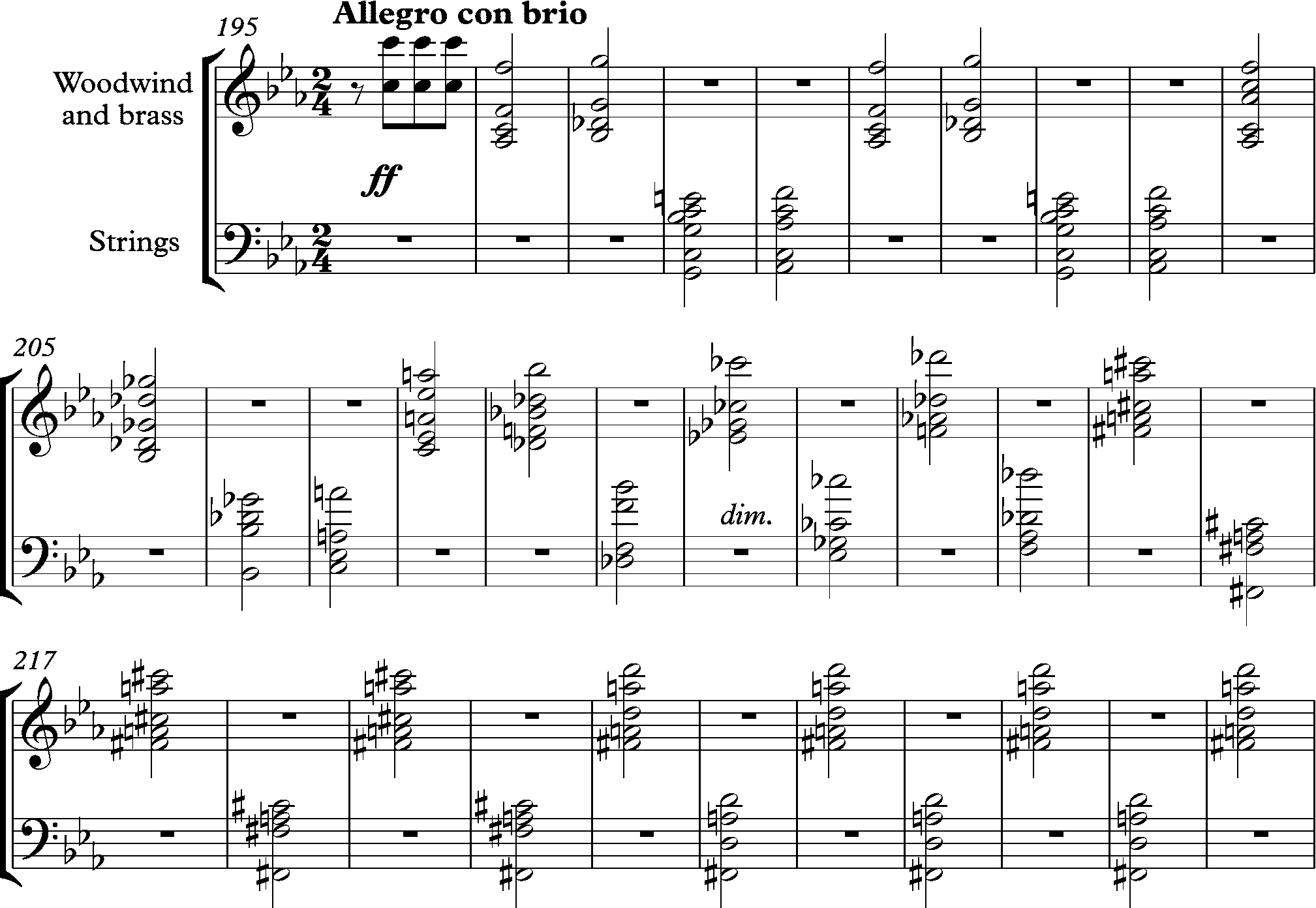 Beethoven, Symphony No. 5, first movement, bars 195-227